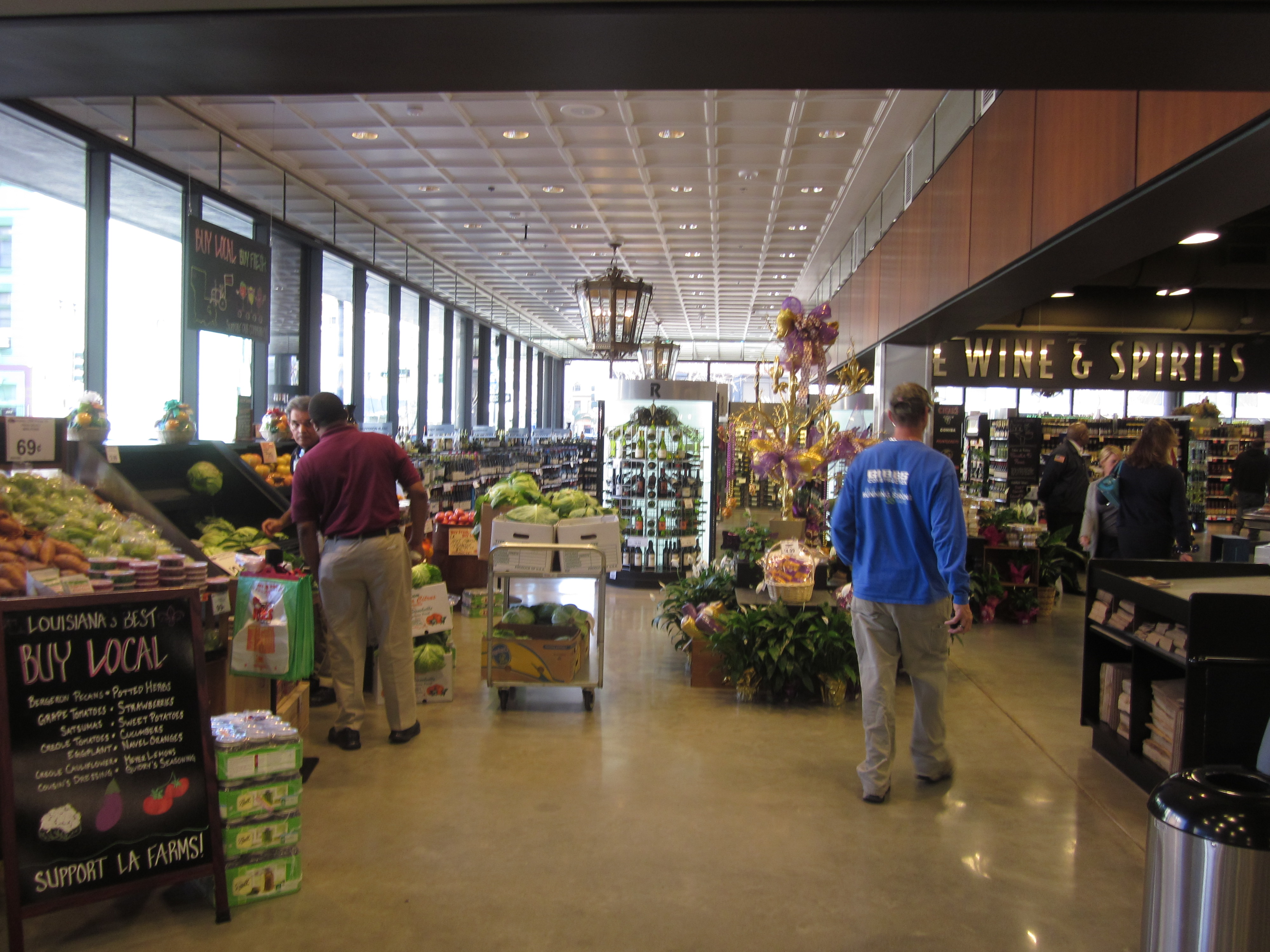 New Orleans: Recently opened "Rouses Market" on Baronne Street; first full service grocery store in CBD/LGD area of city since the Katrina disaster 6 years before. Notice: Reuse authorized with attribution ONLY according to licenses specified by the author, unless specific permission given by author to reuse otherwise.